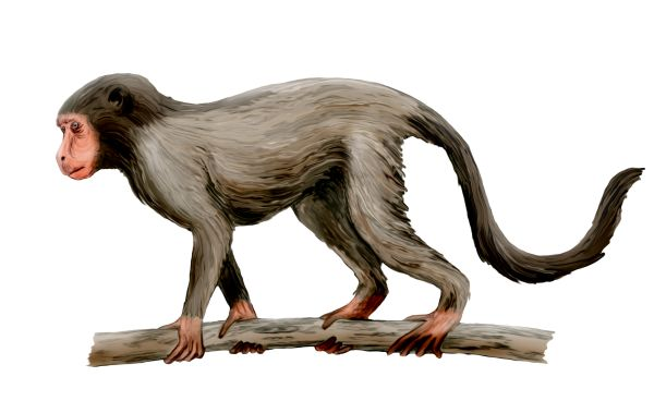 Aegyptopithecus